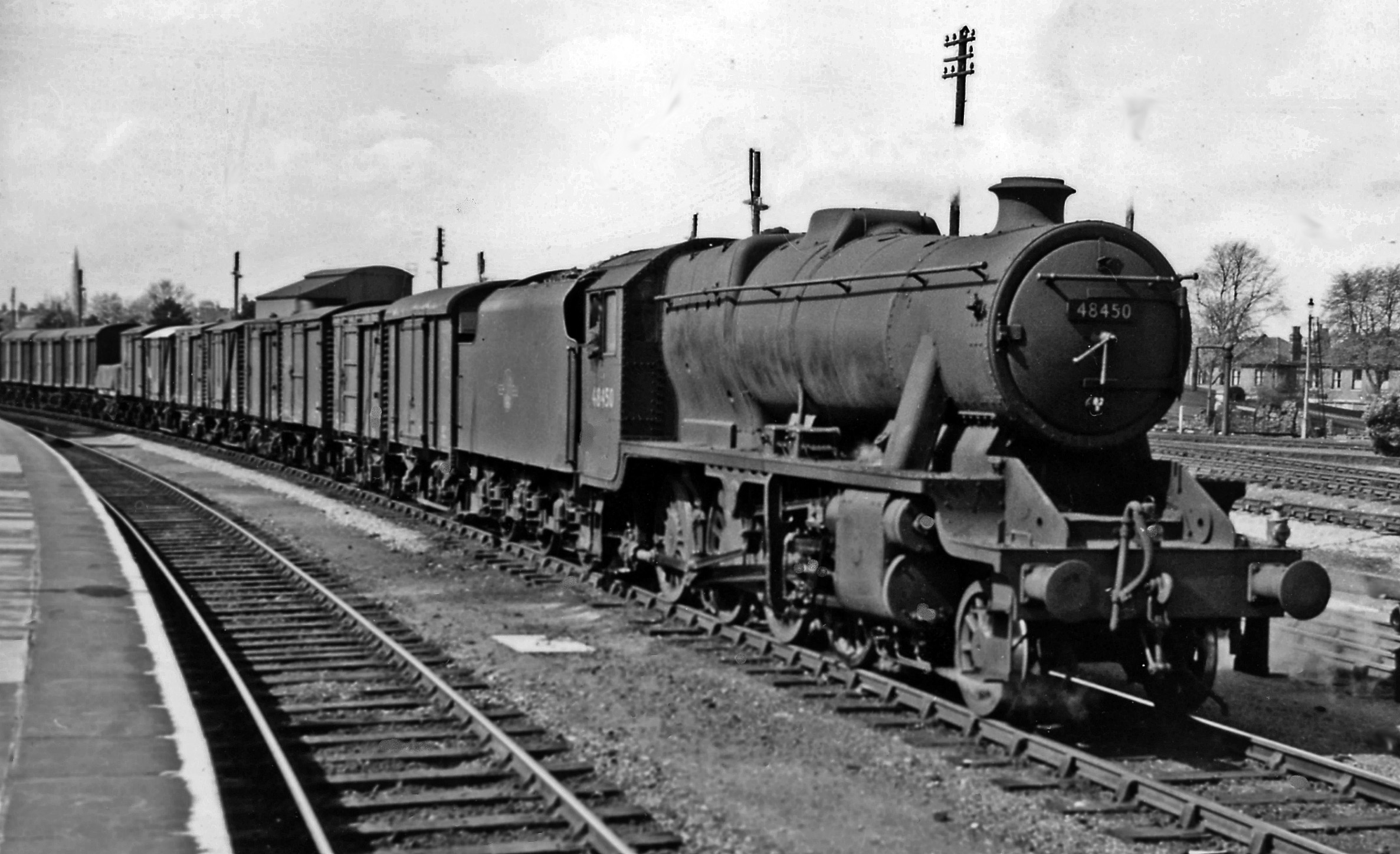 Down freight on the ex-GWR main line from Birmingham at Cheltenham (Malvern Road) station. View northward, towards Honeybourne, Stratford-on-Avon and Birmingham; also the branch to Cheltenham (St James') went off to the right just north of this station. The locomotive is Stanier 8F 2-8-0 No. 48450, one of the 80 built at Swindon Works in 1943-45 and kept on the GWR/BR(WR); most were taken over by the LMSR in 1947, but a number were returned to the WR later - this being one of the latter.